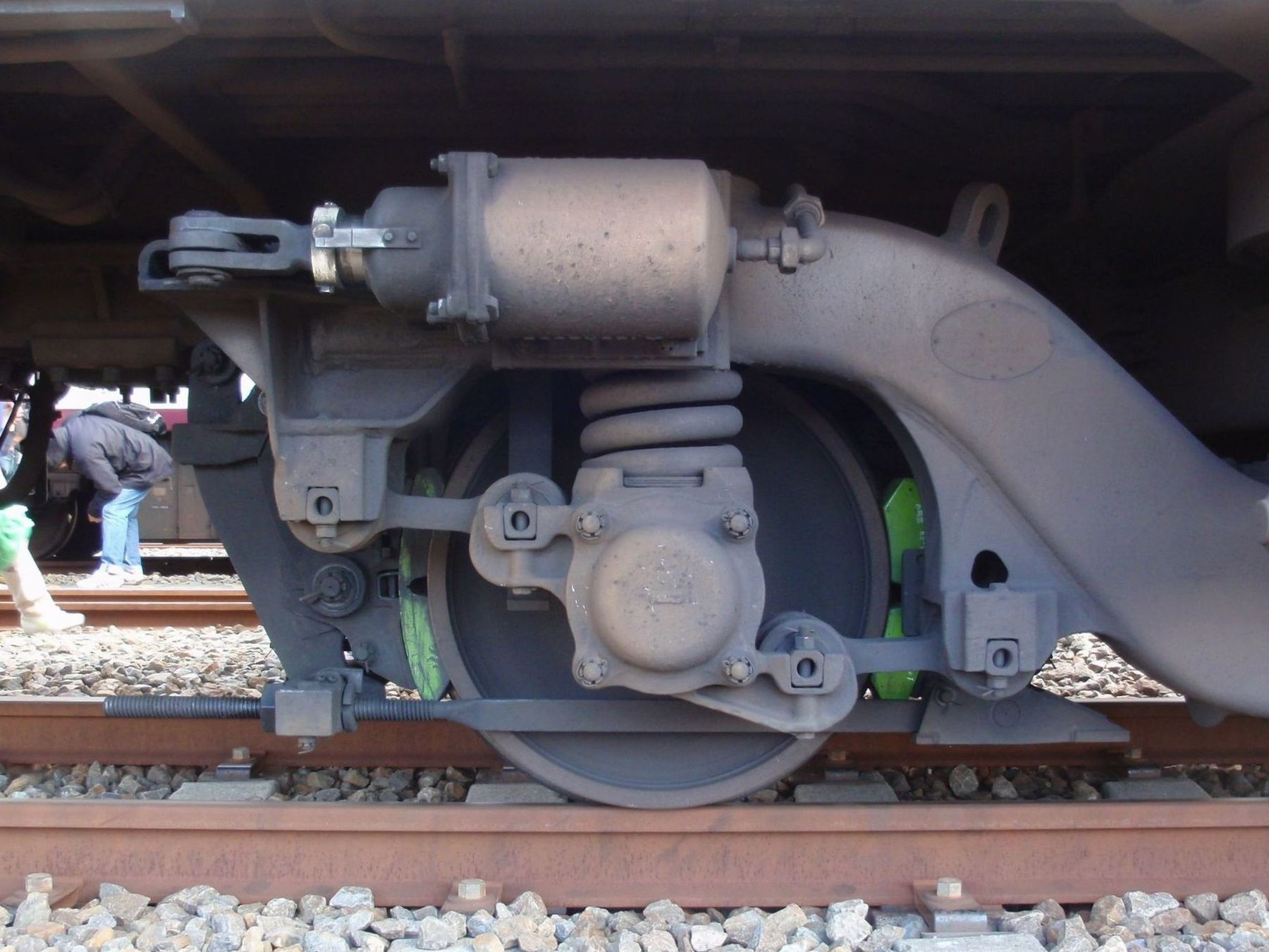 Alstom link of Bogie truck FS075 by Odakyu Electric Railway Company, EMU Type 5000.